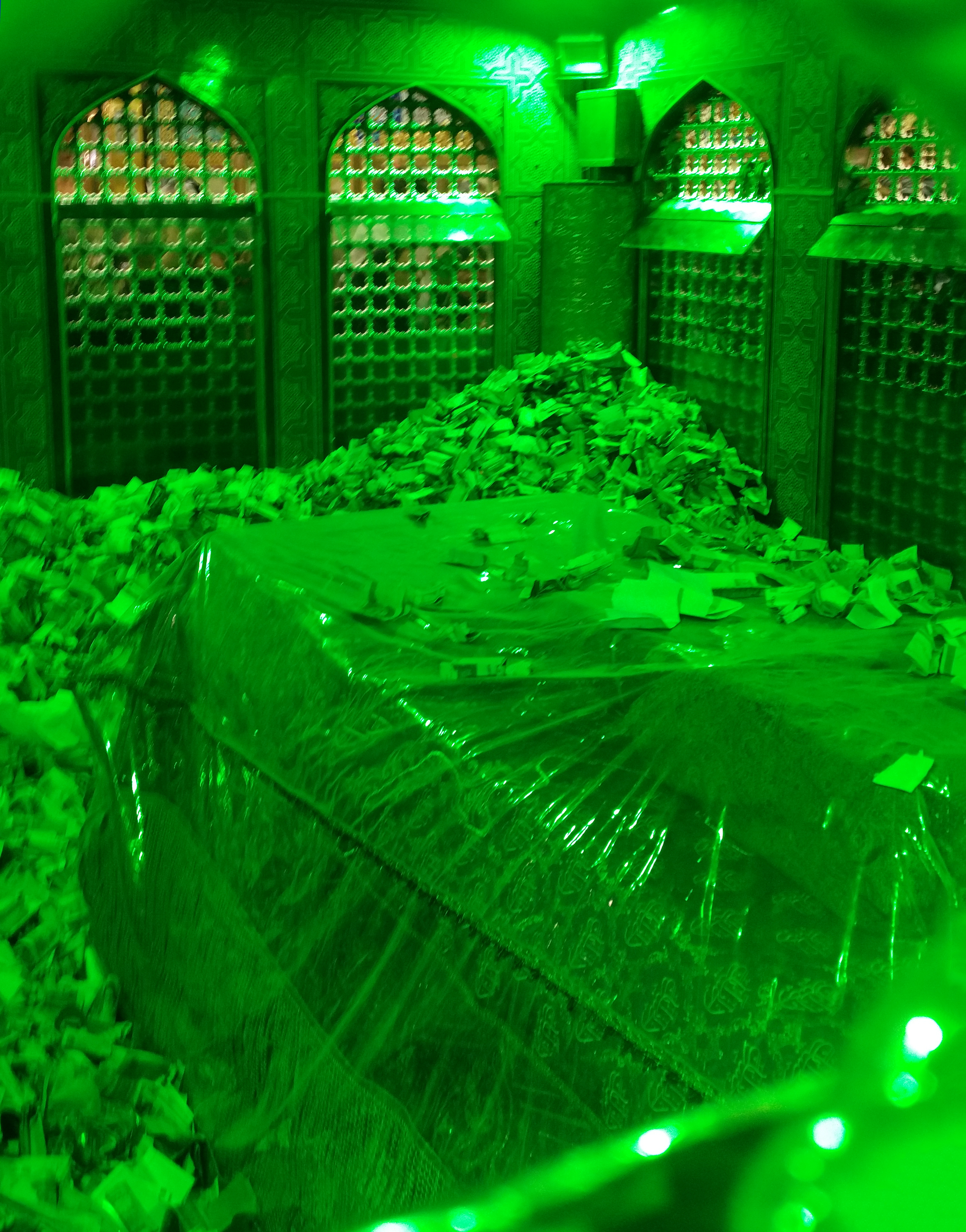 View from the inside of Imam Reza sanctuary and his tomb. What is seen at around the tombs are banknotes in different currencies, valuables such as jewelry and also letters.